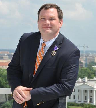 Mathew Tully medium shot in Washington, DC